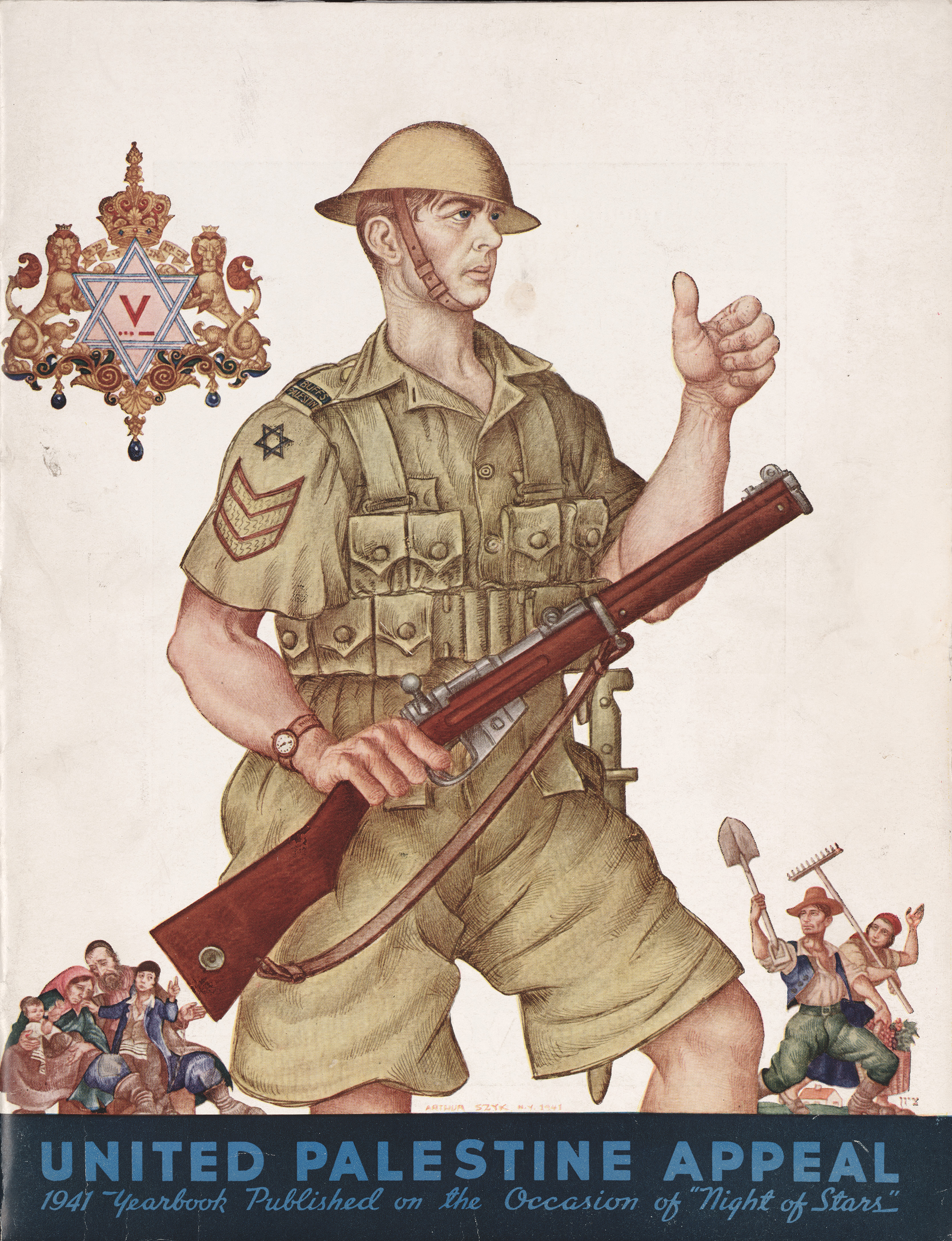 Arthur Szyk's political activism on behalf of Europe's Jews was intimately linked with his support of Zionism. His images in support of the modern Jewish state welded the bravery of the ancient Hebrews with the valor of the "new Jews" who forged a homeland in Palestine, serving as a fitting culmination to an artistic career dedicated to showing the world that the Jews were a heroic people, steeled by adversity and triumphant in spirit. Arthur Szyk designed this poster in 1941 to publicize and mobilize support for the creation of a Jewish army to fight against the Axis powers and to rescue persecuted Jews in Europe. This piece, created for the mainstream Zionist United Palestine Appeal, depicts a Jewish soldier as the hope of liberation for Europe's persecuted Jews (lower left) and the defender of Zionist pioneers in Palestine (lower right). The Star of David is inscribed with Roman-era Rabbi Hillel's famous adage, "If I am not for myself, who will be for me?”, a phrase that appears frequently in Szyk's work as an individual and national injunction.